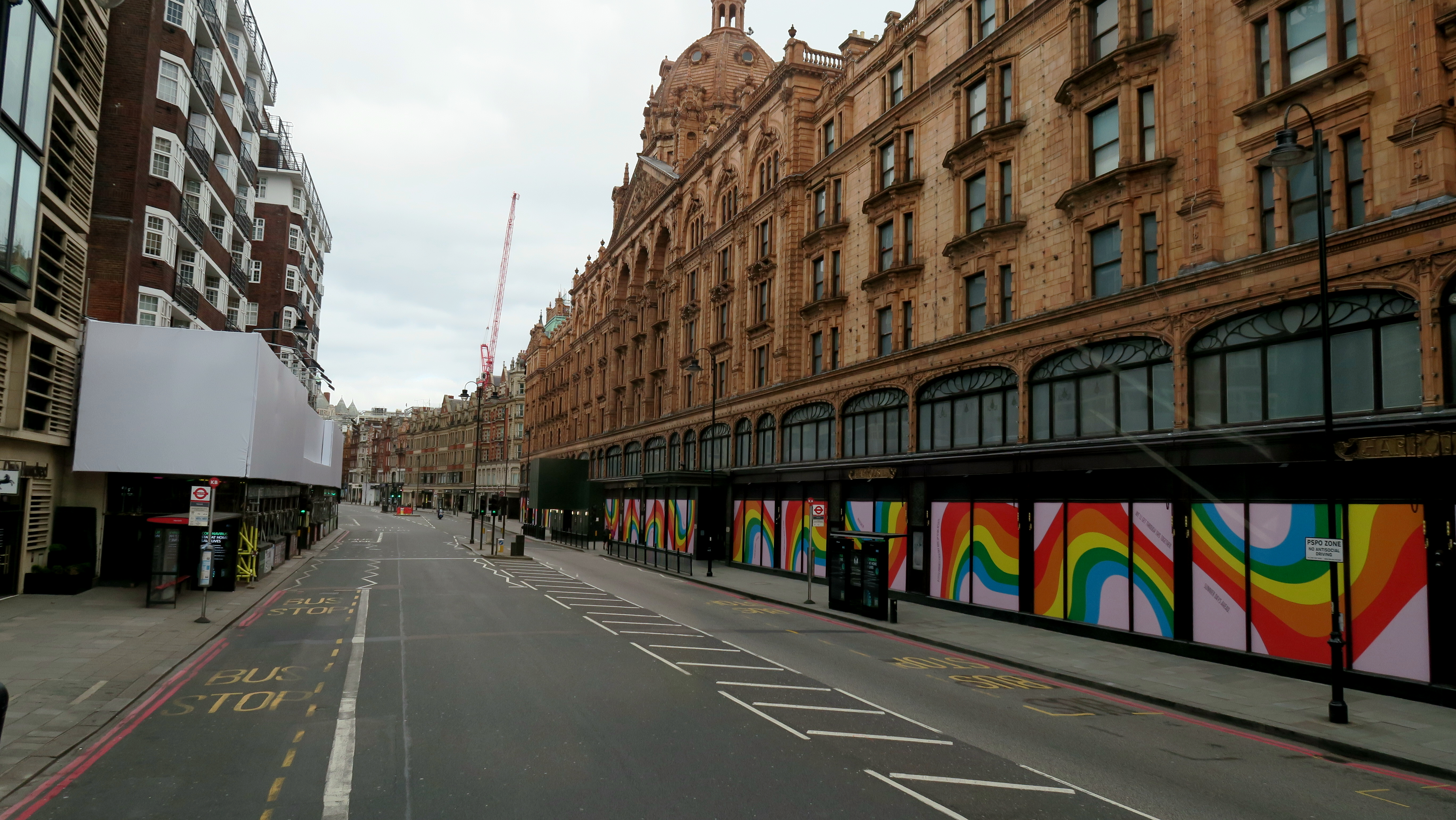 Any other Saturday and Brompton Road outside Harrods would be flooded with traffic and visitors.